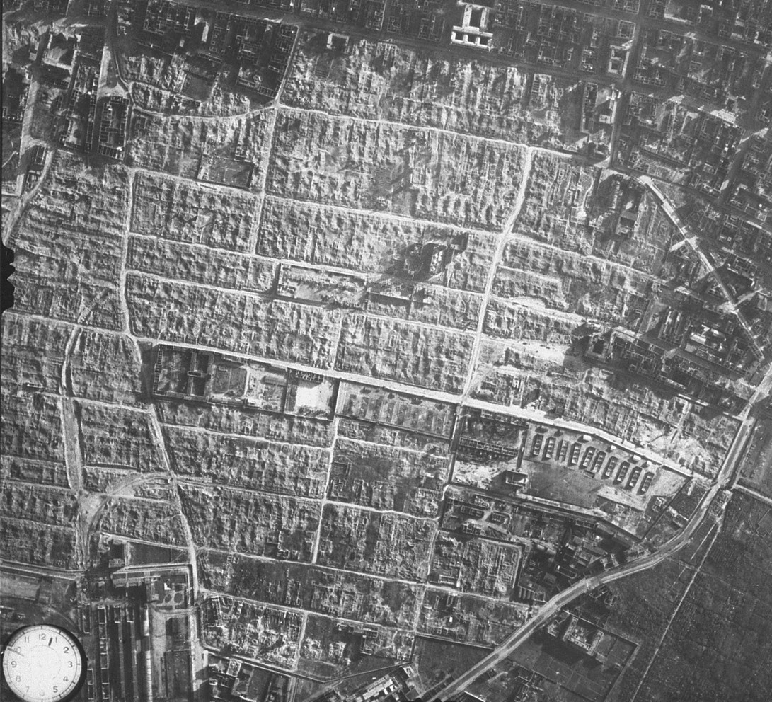 Aerial photohraph of northern Warsaw Ghetto area (north direction on the top). In the middle German Concentration Camp in Warsaw (named KL Warschau or KZ Warschau), created in 1943 - see precise localisation of KL Warschau here [1]. Warsaw, capital of Poland during german occupation (1939-1945)